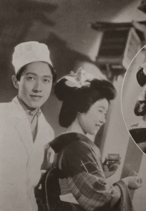 Shin Tokudaiji and Kinuyo Tanaka in Hanakago no uta (花籠の歌) directed by Heinosuke Gosho - 1937